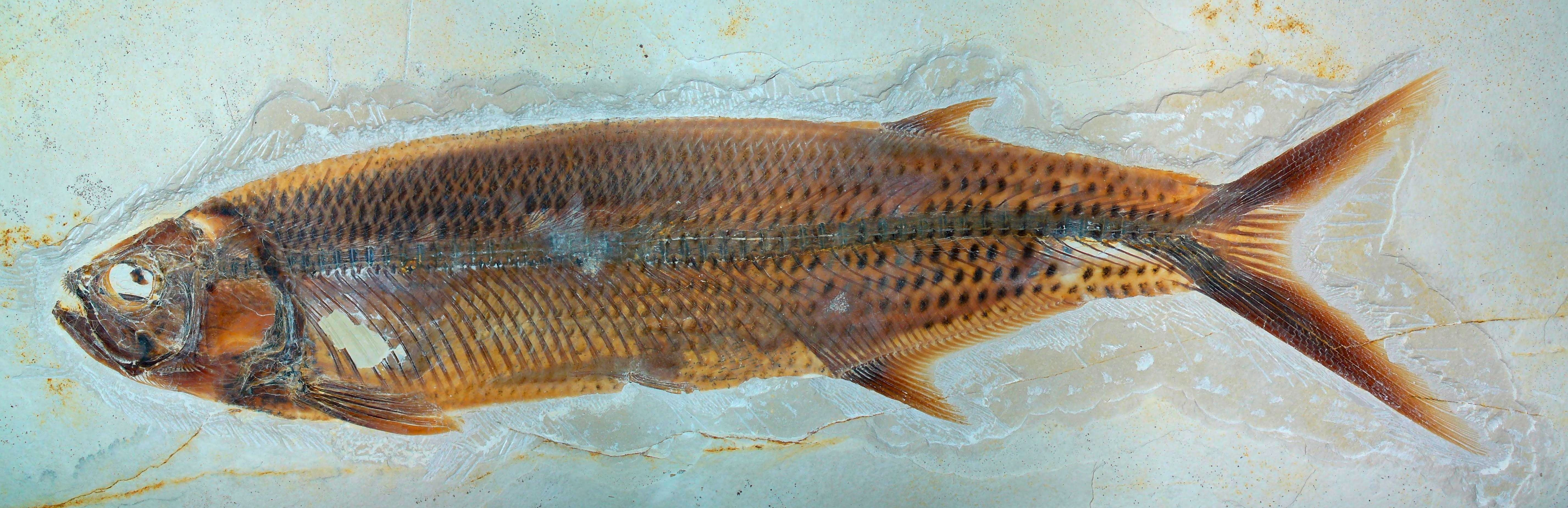 Thrissops cf. formosus, Ichthyodectidae; Upper Jurassic, Tithonium, Ettling, Bavaria, Germany; Jura-Museum Eichstätt, Germany (48°53′38.36″N 11°10′14.45″E / 48.8939889°N 11.1706806°E). The scales show the original colour pattern, induced by melanin. In addition, one can see muscles and parts of the gastrointestinal tract. This is one of the best conserved fossil fishes worldwide. Photo taken when on loan in an exposition in the Staatliches Museum für Naturkunde Karlsruhe (49°0′26.63″N 8°24′0.32″E / 49.0073972°N 8.4000889°E)